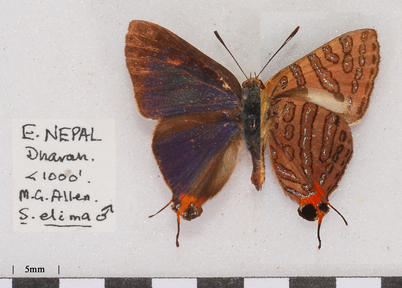 Cigaritis elima uniformis, male, Nepal, Alan Cassidy photo.